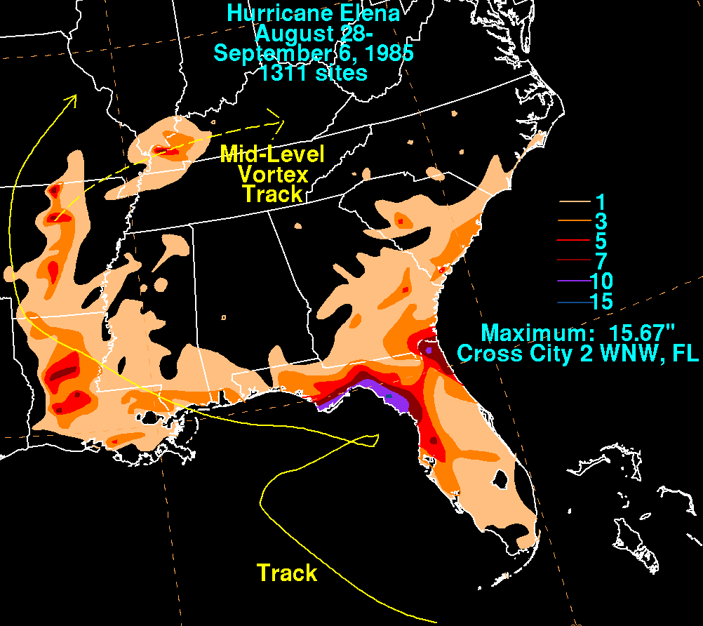 Rainfall produced by Hurricane Elena during August and September 1985.